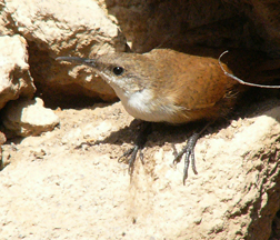 Catherpes mexicanus, Bandelier National Monument, New Mexico, USA